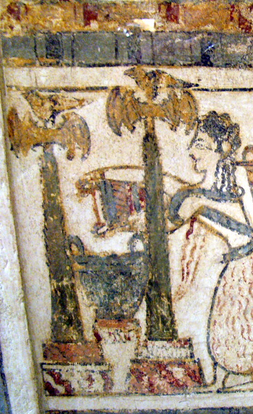 Offering to the dead. Painting on sarcophagus from Agia Triada. Herakleion Archeological Museum